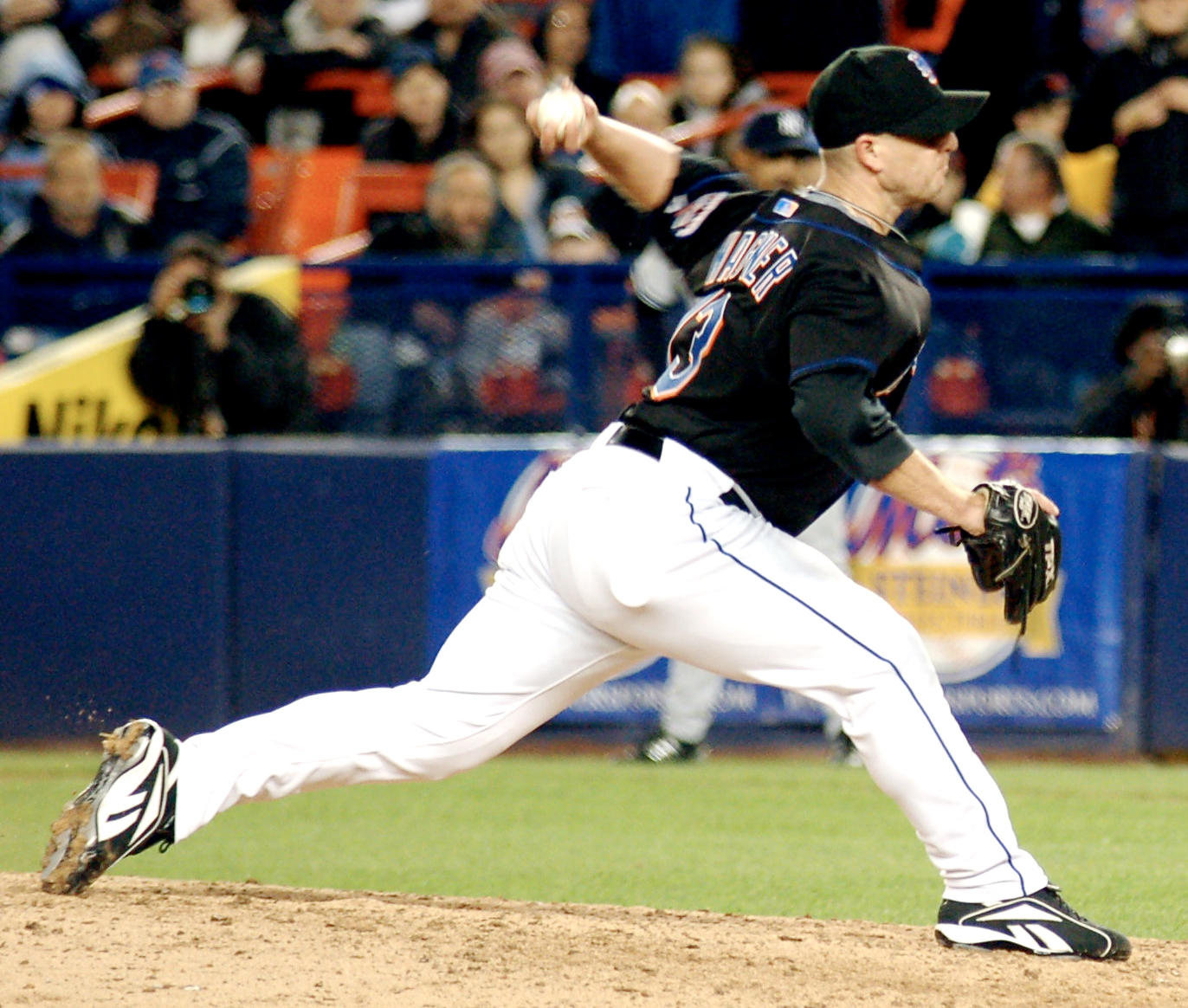 New York Mets pitcher Billy Wagner pitching